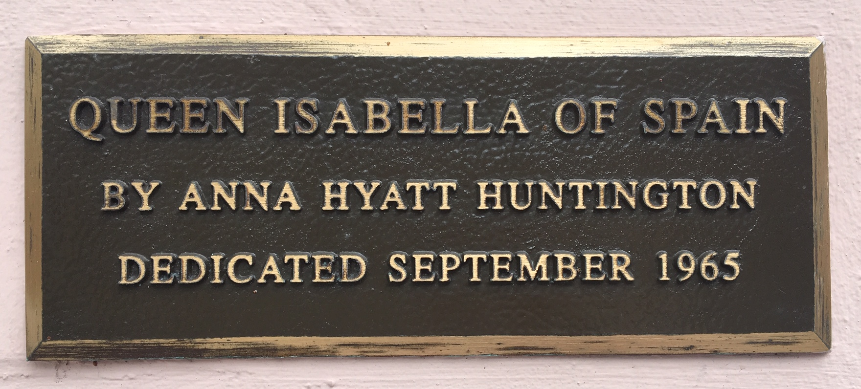 Plaque that appears on the wall of the Hispanic Garden in St. Augustine, FL that reads "Queen Isabella of Spain" by Anna Hyatt Huntington, Dedicated September 1965.